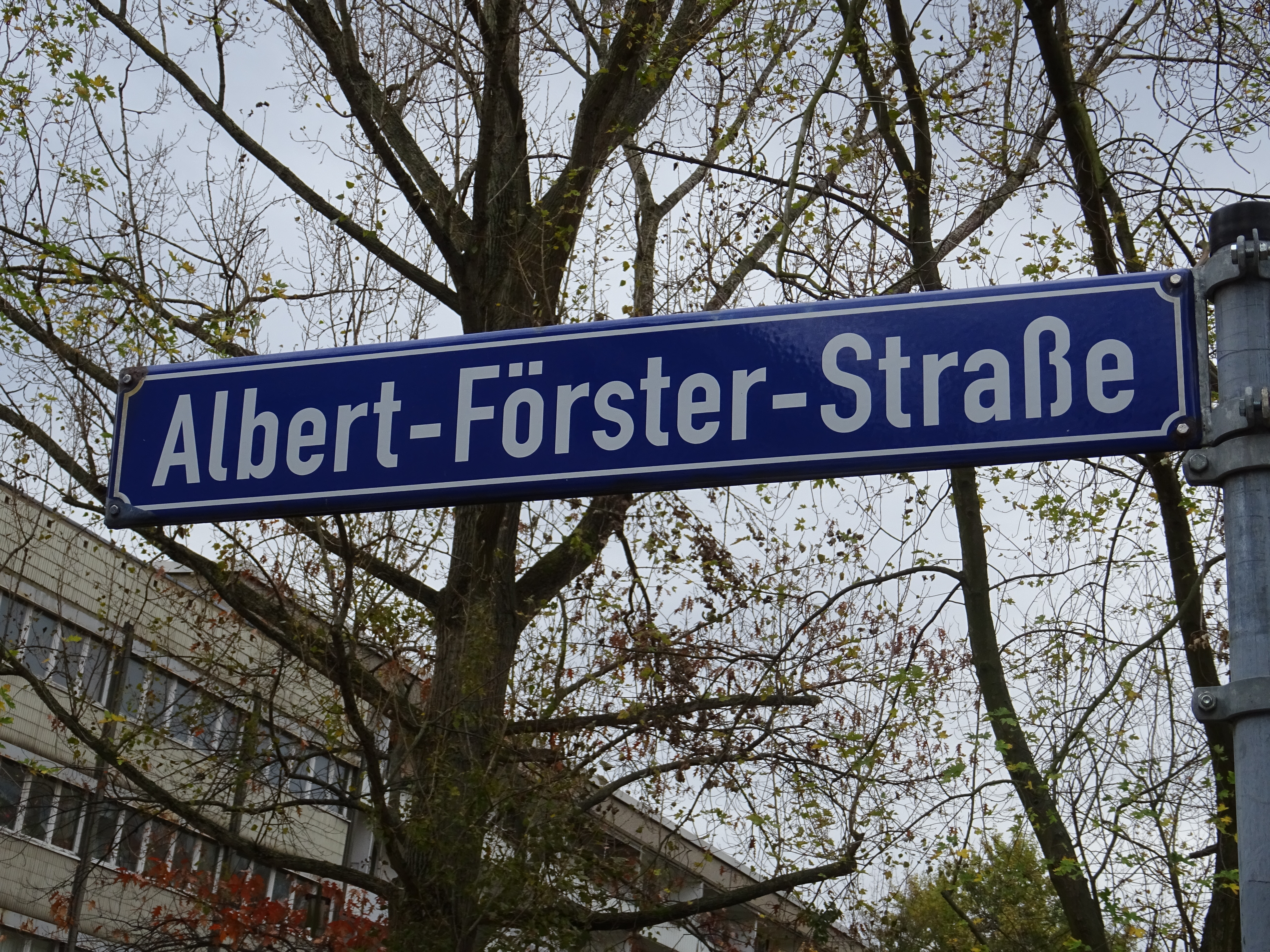 Street sign of Albert-Förster-Straße in Cottbus